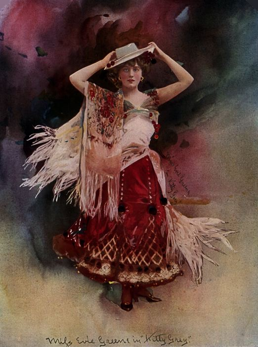 Evie Greene in Kitty Grey, from a book entitled "Players of the Day", published in London by George Newnes, circa 1902.